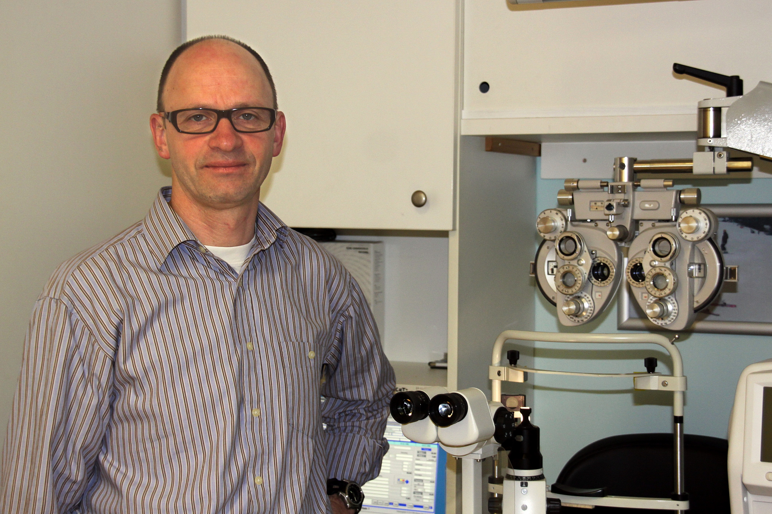 Claudio Jirasko, Optician of Austria